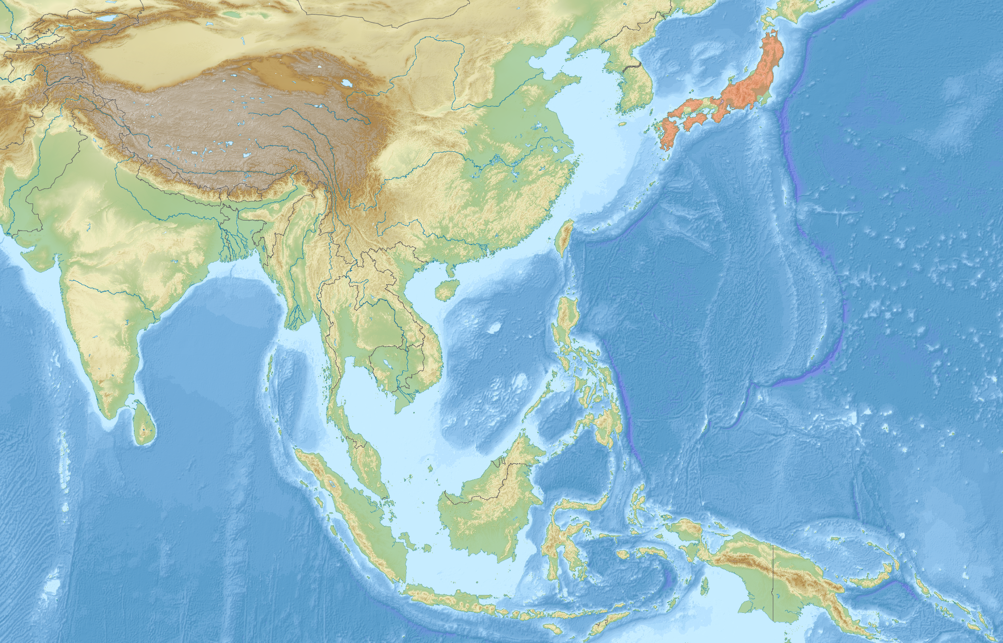 Distribution of Petaurista leucogenys Projection: Equirectangular projection, strechted by 112.0%. Geographic limits of the map: N: 44.0° N S: -11.0° N W: 67.0° E E: 163.0° E GMT projection: -JX33.86666666666667cd/21.73111111111111cd GMT region: -R67.0/-11.0/163.0/44.0r GMT region for grdcut: -R67.0/-11.0/163.0/44.0r Relief: SRTM30plus. Made with Natural Earth. Free vector and raster map data @ .